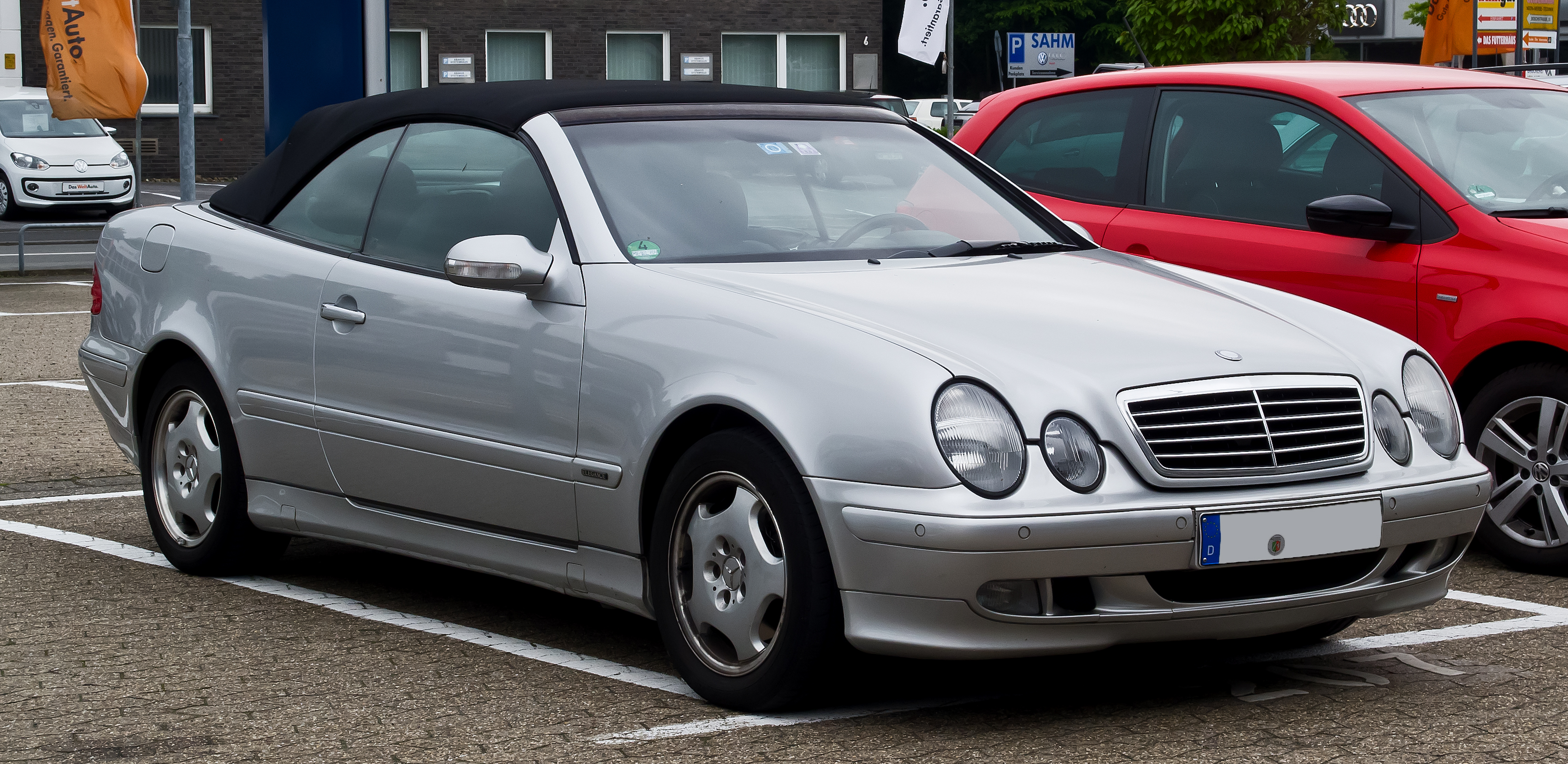 Mercedes-Benz CLK 200 Kompressor Cabriolet Elegance (A 208, Facelift)